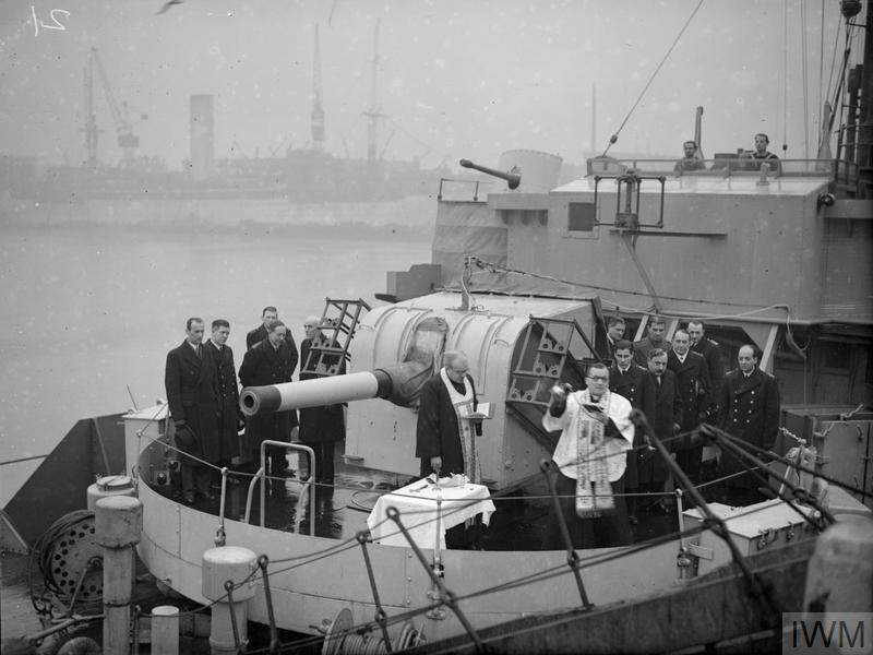 Prince Tomislav of Yugoslavia naming the corvette Nada